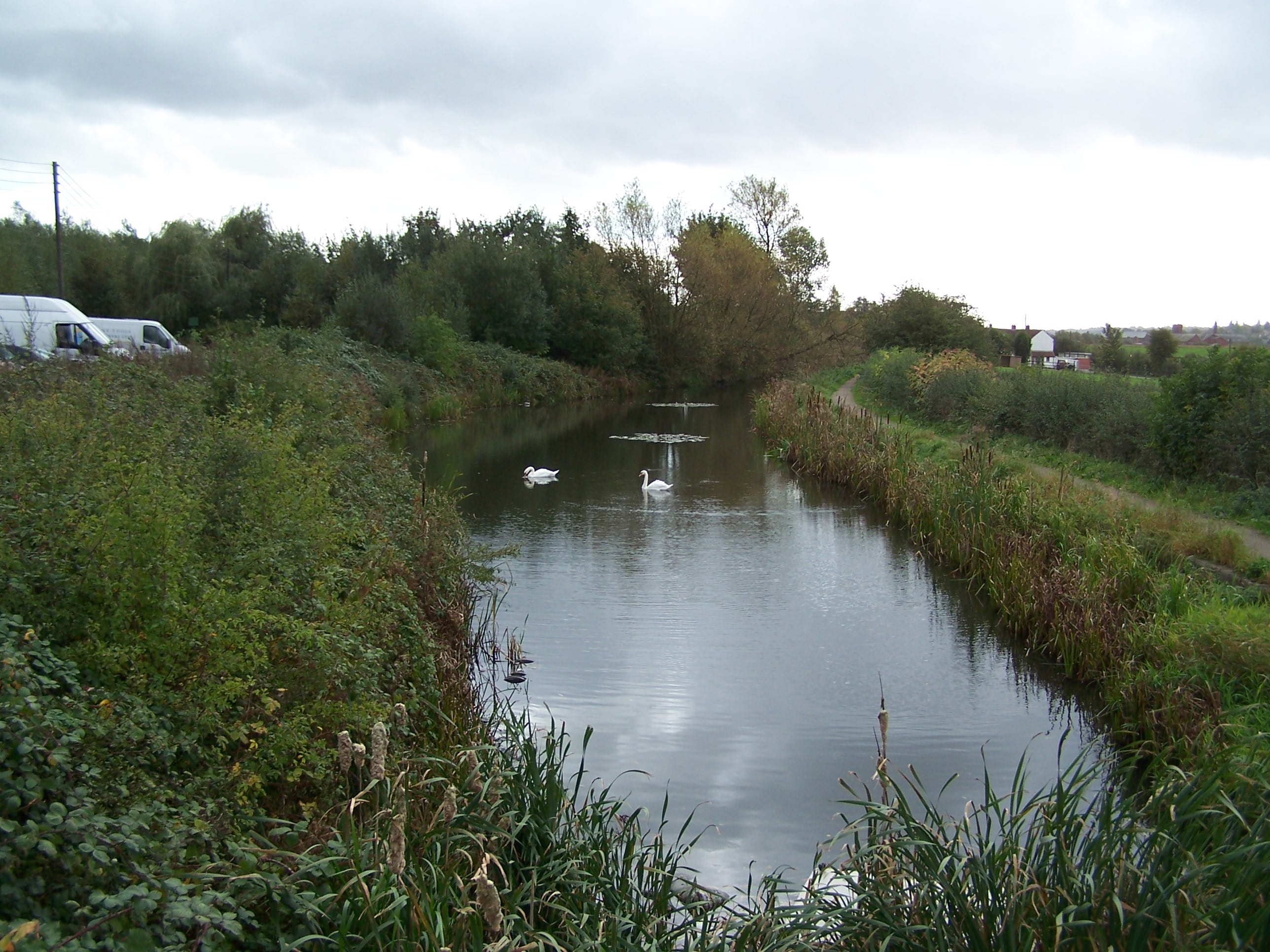 Author: Tina Cordon, Source, Own Picture Tina Cordon 17:31, 19 October 2006 (UTC)